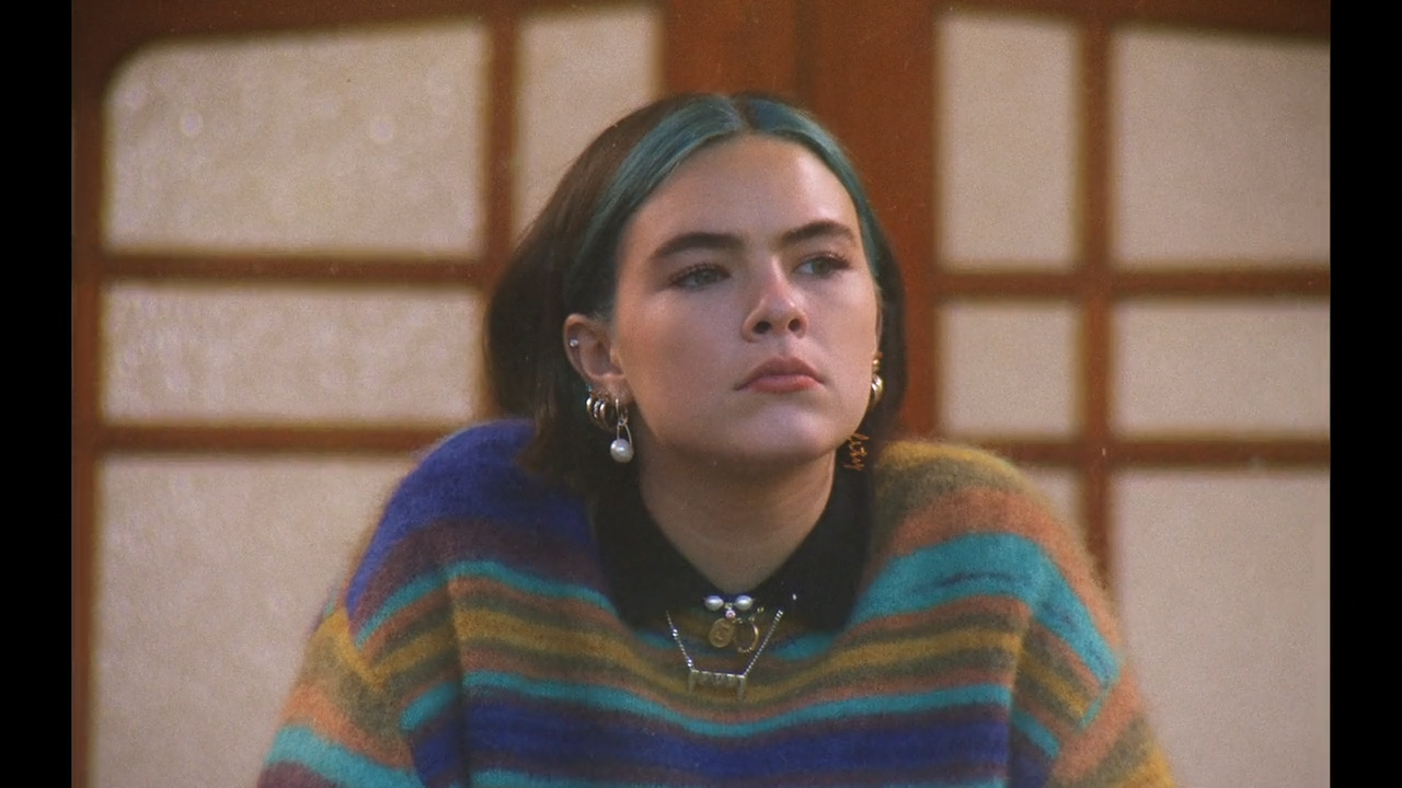 Benee in the music video for Supalonely (2020).